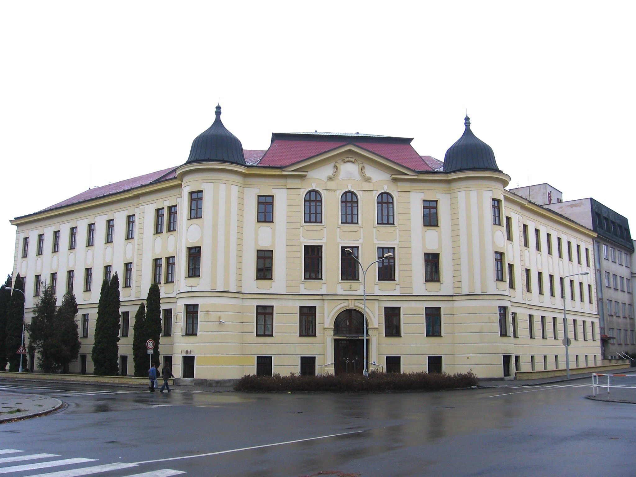 District Court in Šumperk (Olomouc Region, Czech Republic)